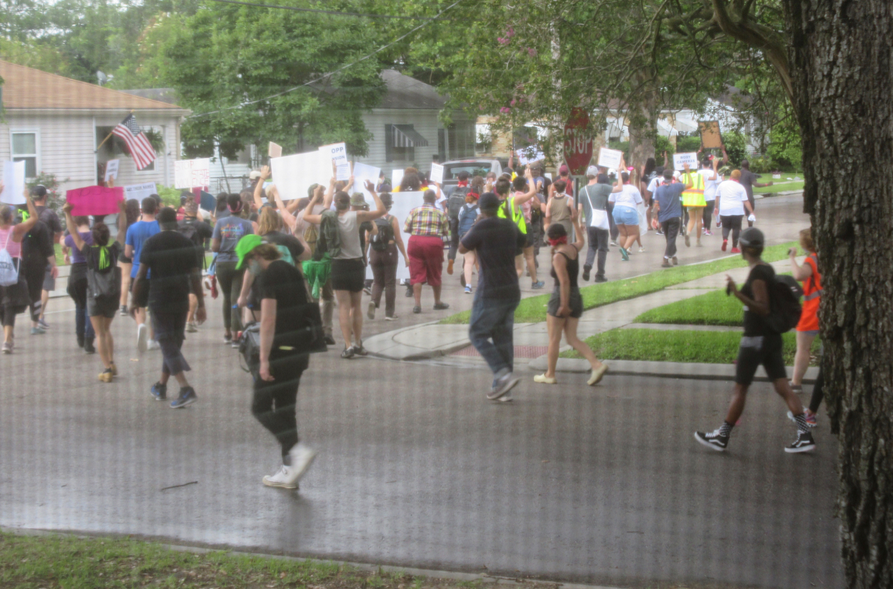 Protest in Old Jefferson Louisiana, suburb of New Orleans. Black Lives Matter theme. About 60 people on foot, followed by several automobiles. 6 June 2020. (Photographed through window with screen as I didn't know in advance it would be passing.)